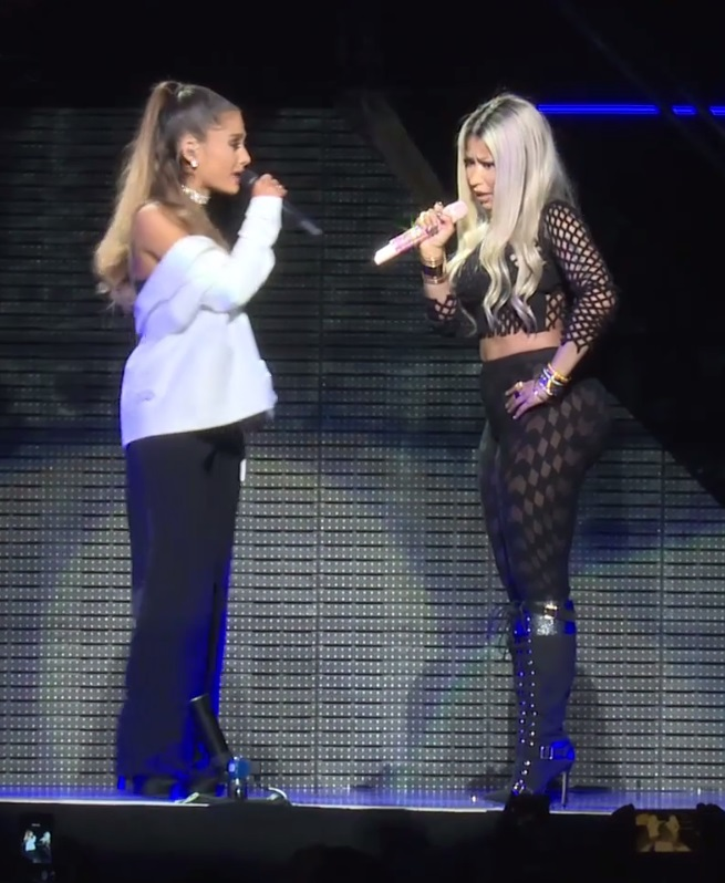 Nicki Minaj Headlines the T-Mobile Arena Grand Opening in Las Vegas w/ Special Guest Ariana Grande